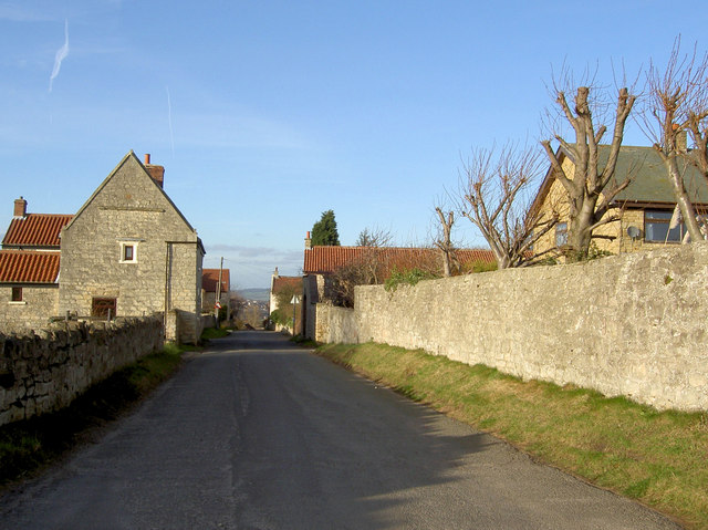 Common Lane Clifton The local dolomitic limestone is clearly visible in the construction of houses and walls.